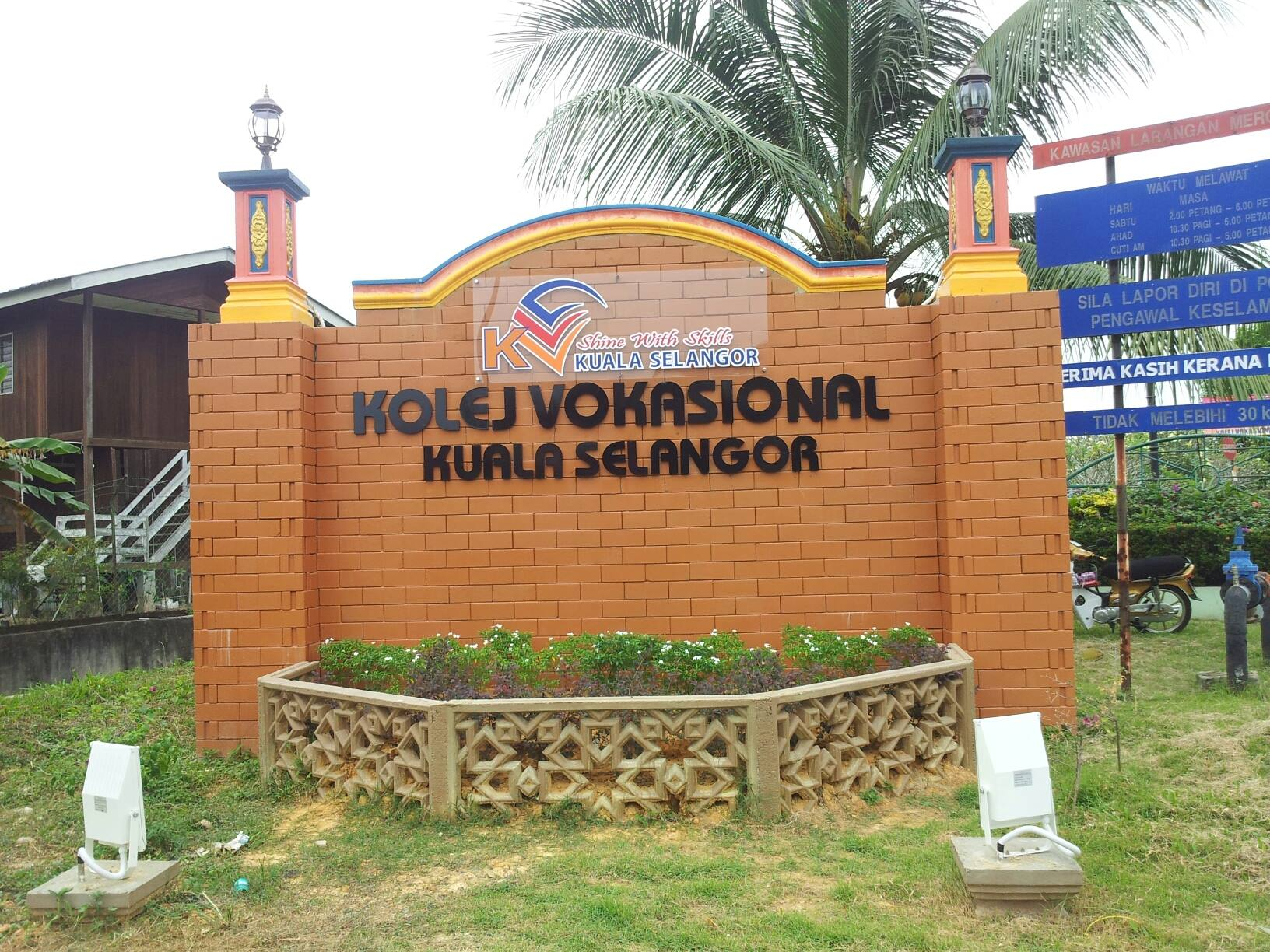 Kolej Vokasional Kuala Selangor